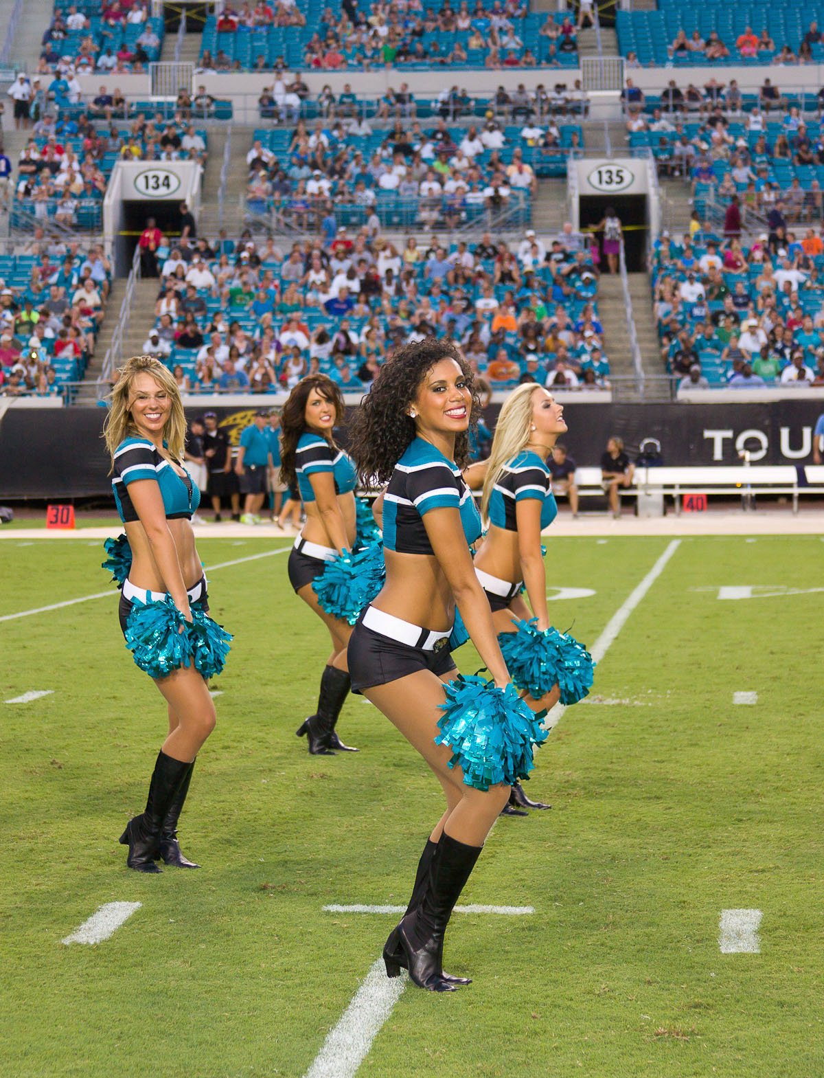 2011 Jaguars Scrimmage